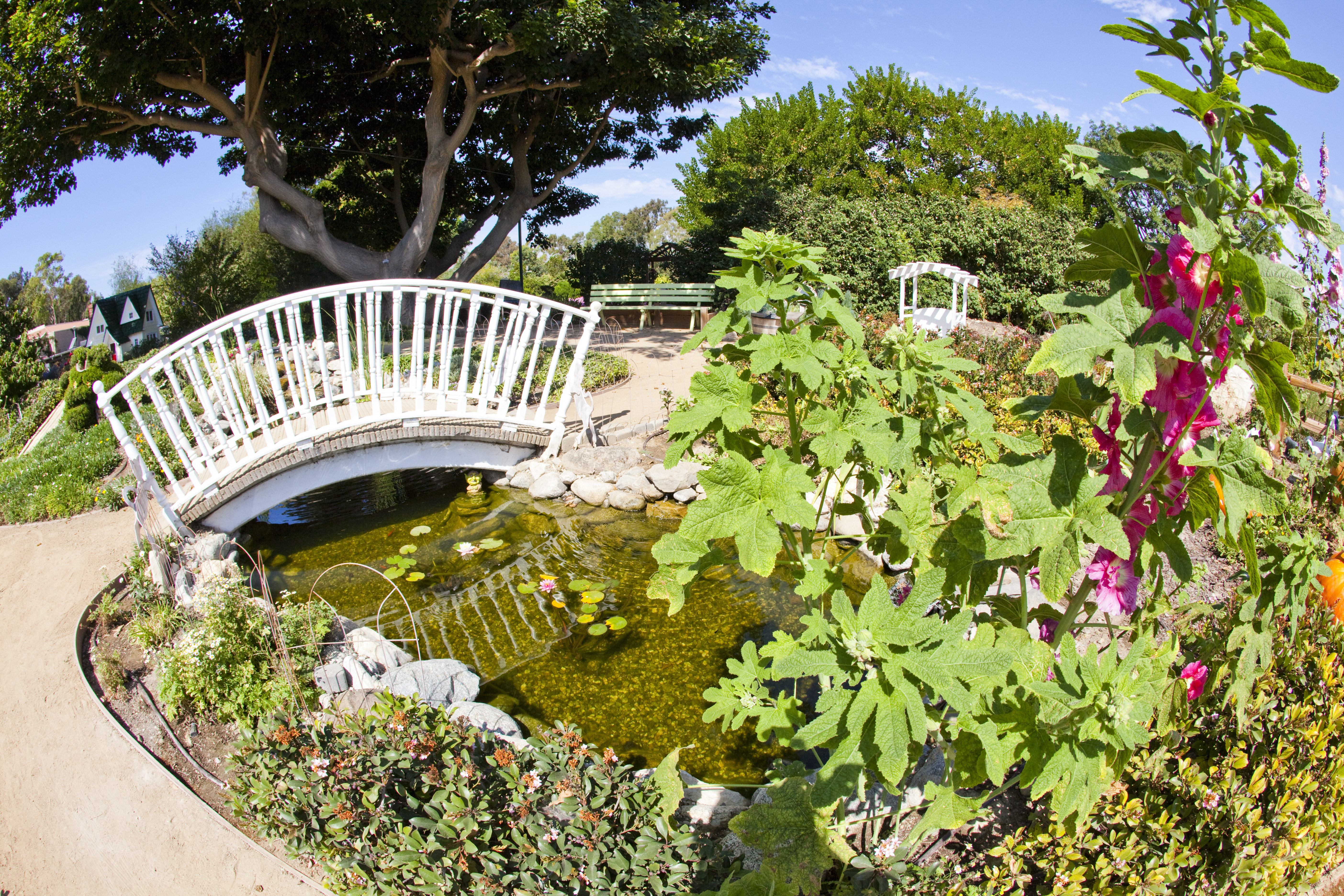 Fairytale Children's Garden